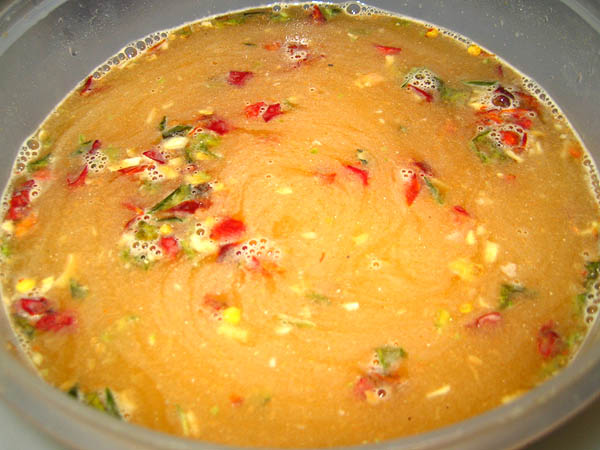 Chilindrón or Txilindron, a sauce typical of the Basque Country and Aragon.